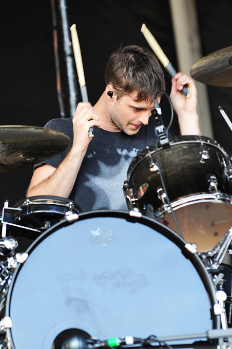 Southbound Festival 2012